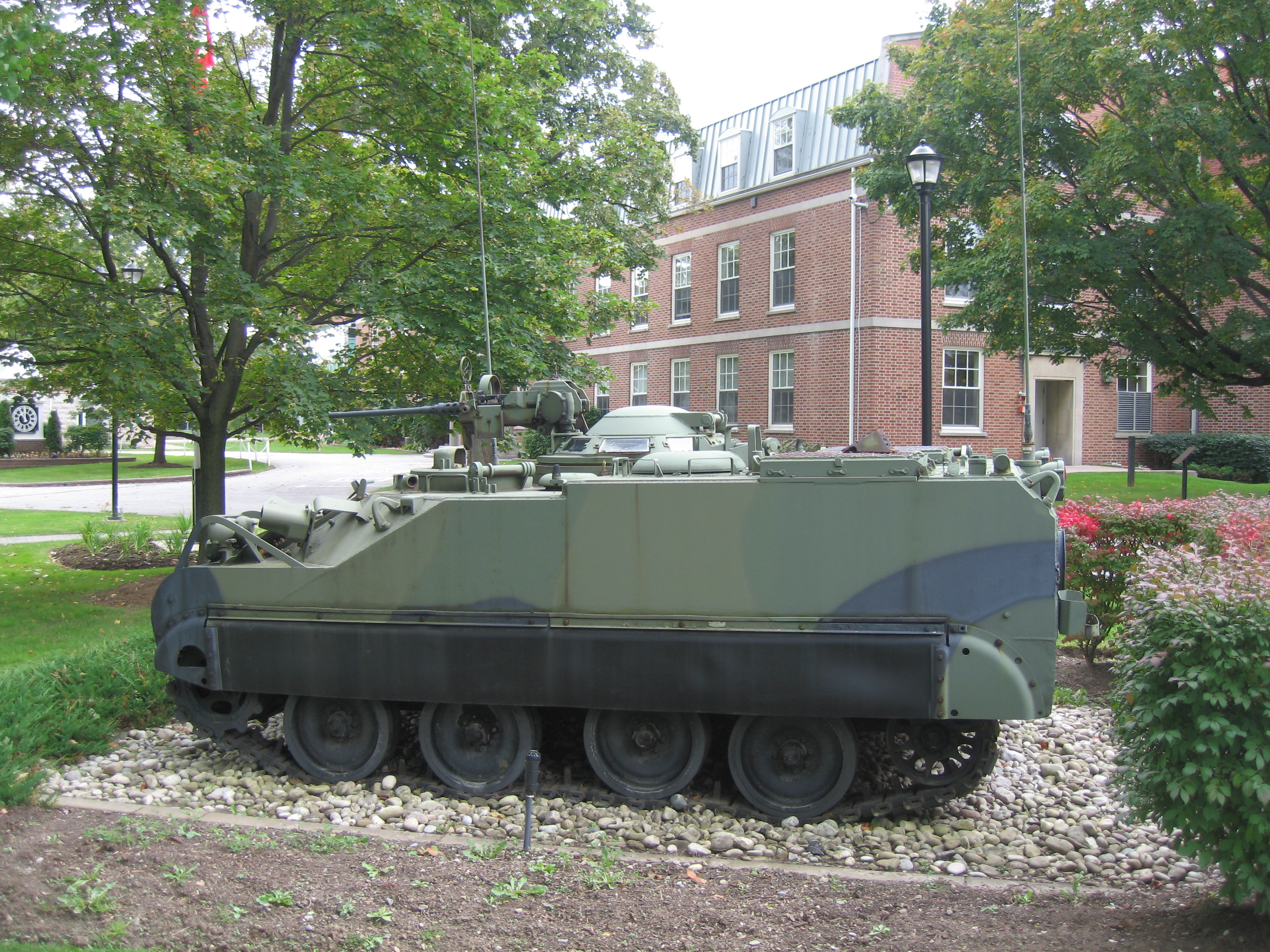 Lynx reconnaissance vehicle at the Canadian Forces College, 215 Yonge Boulevard, Toronto, Ontario, Canada.